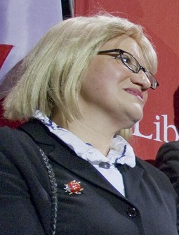 Yvonne Jones, Leader of the Newfoundland and Labrador Liberal Party